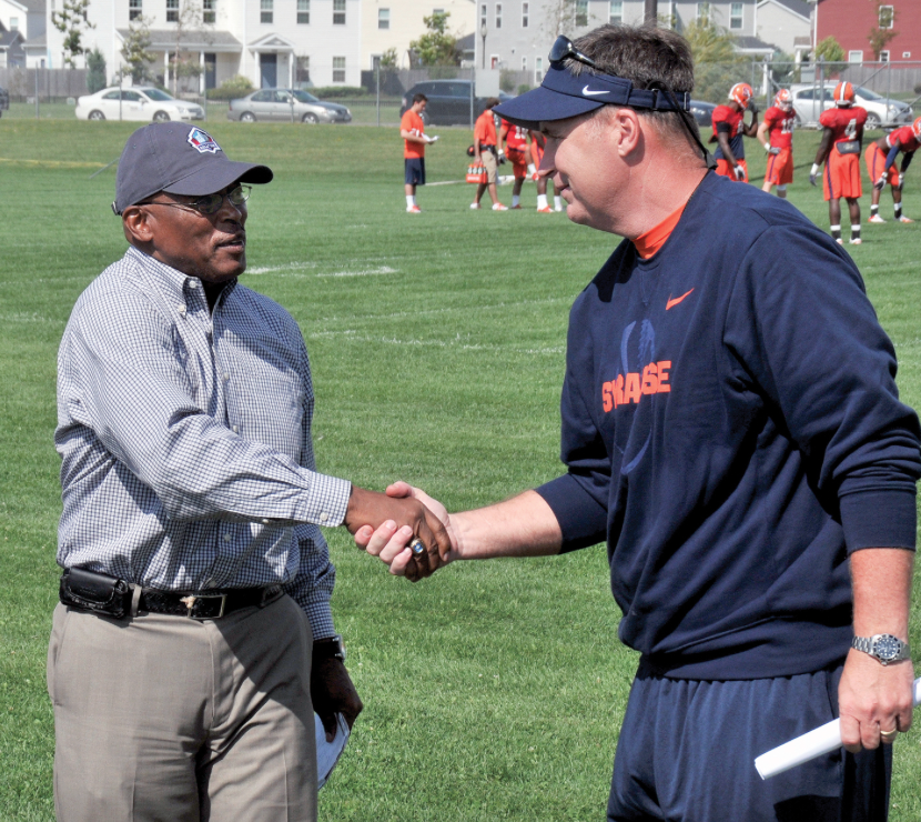 Floyd Little, former Denver Bronco and Pro Football Hall of Fame inductee, greets Syracuse University football coach Doug Marrone while visiting during the team’s preseason training camp at Fort Drum in August. Little was a three-time All-American running back with Syracuse University in the 1960s.